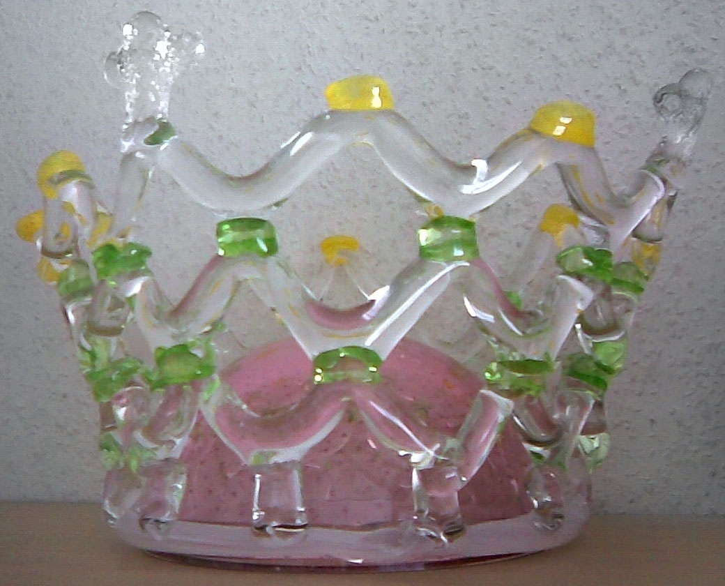 Glass Charles crown by Czech designer Bořek Šípek